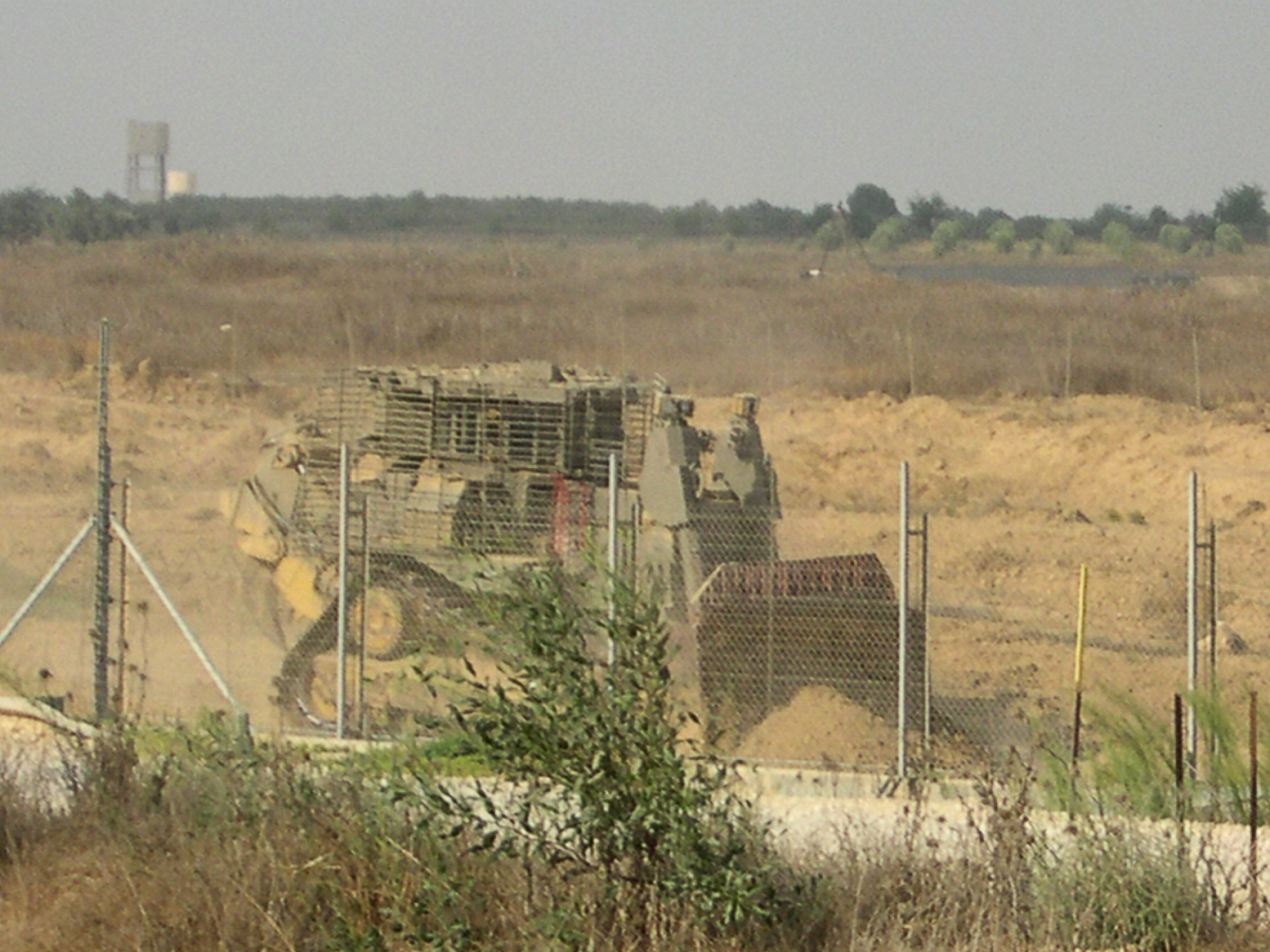 IDF Caterpillar D9R armored bulldozer working in the Palestinian side of the Israel-Gaza barrier in order to expose explosive devices.